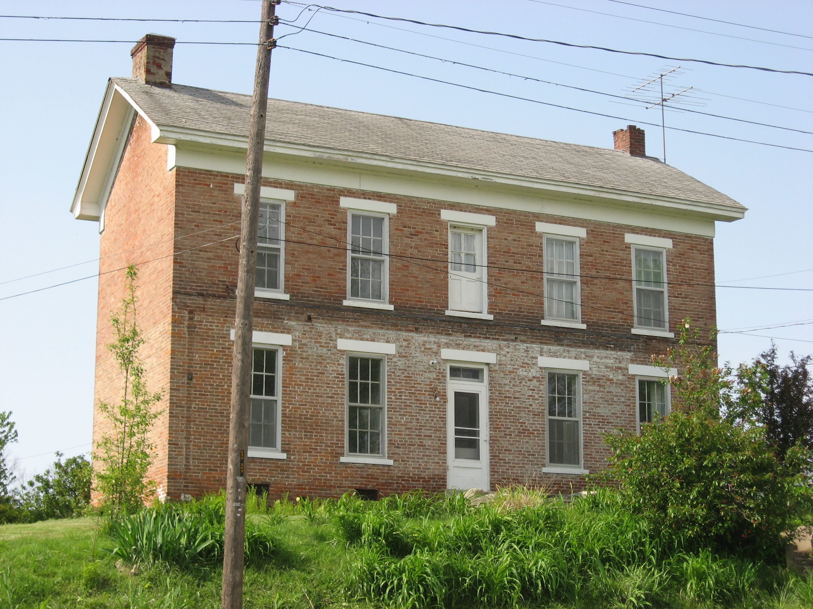 Front of the Alfred Simonson House, located at 207 E. Shipping Street in Edwardsport, Indiana, United States. Built in 1873, it is listed on the National Register of Historic Places.